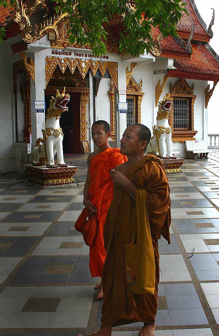 Wat-Prathat-Doi-Suthep, Buddhist temple near Chiang Mai - Thailand. Canon EOS Digital Rebel, 18-55mm Canon lens